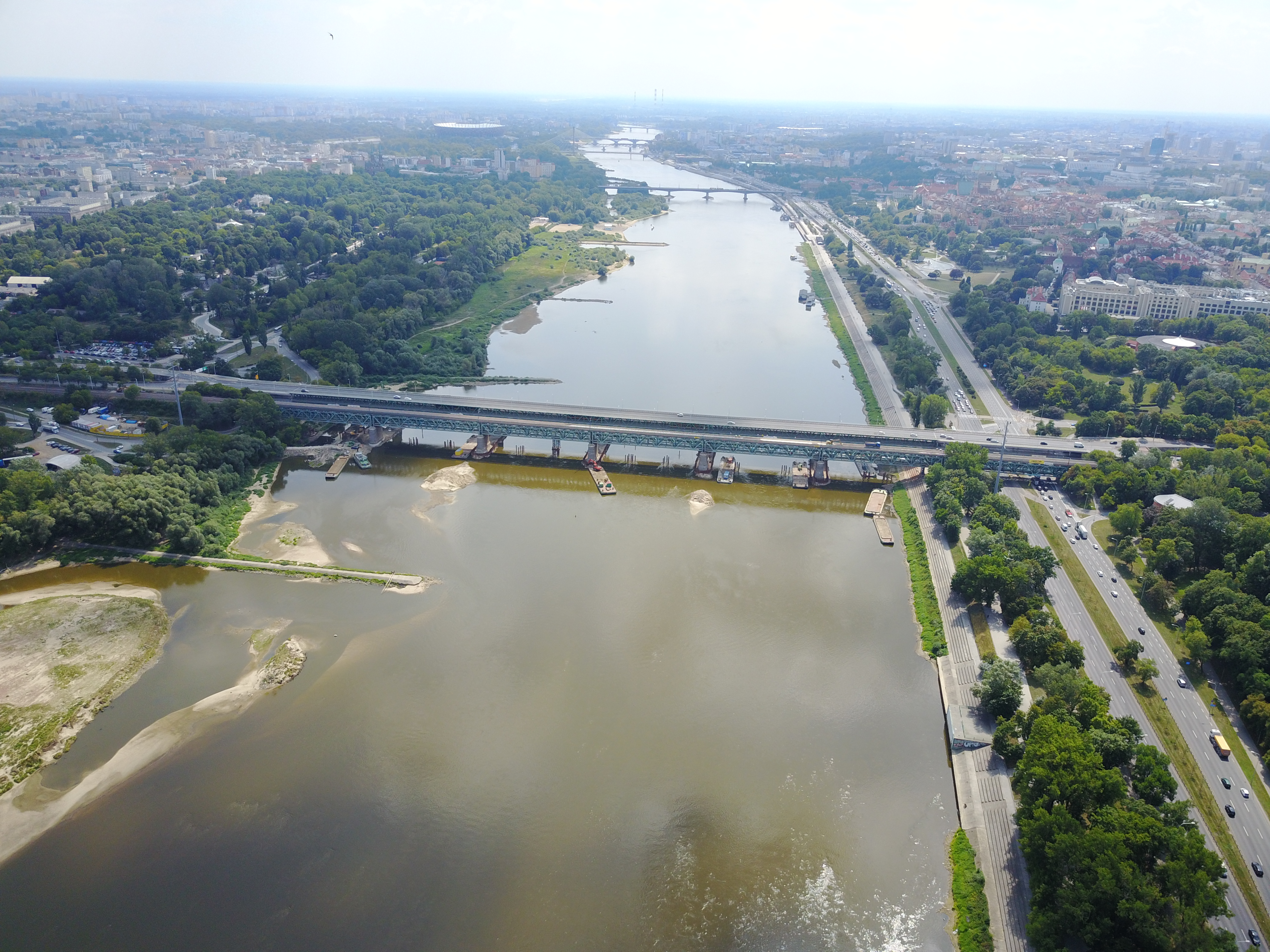 Gdański Bridge